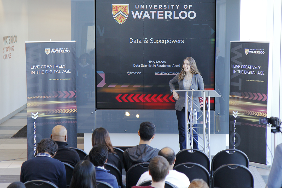 Hilary Mason at University of Waterloo Stratford Campus